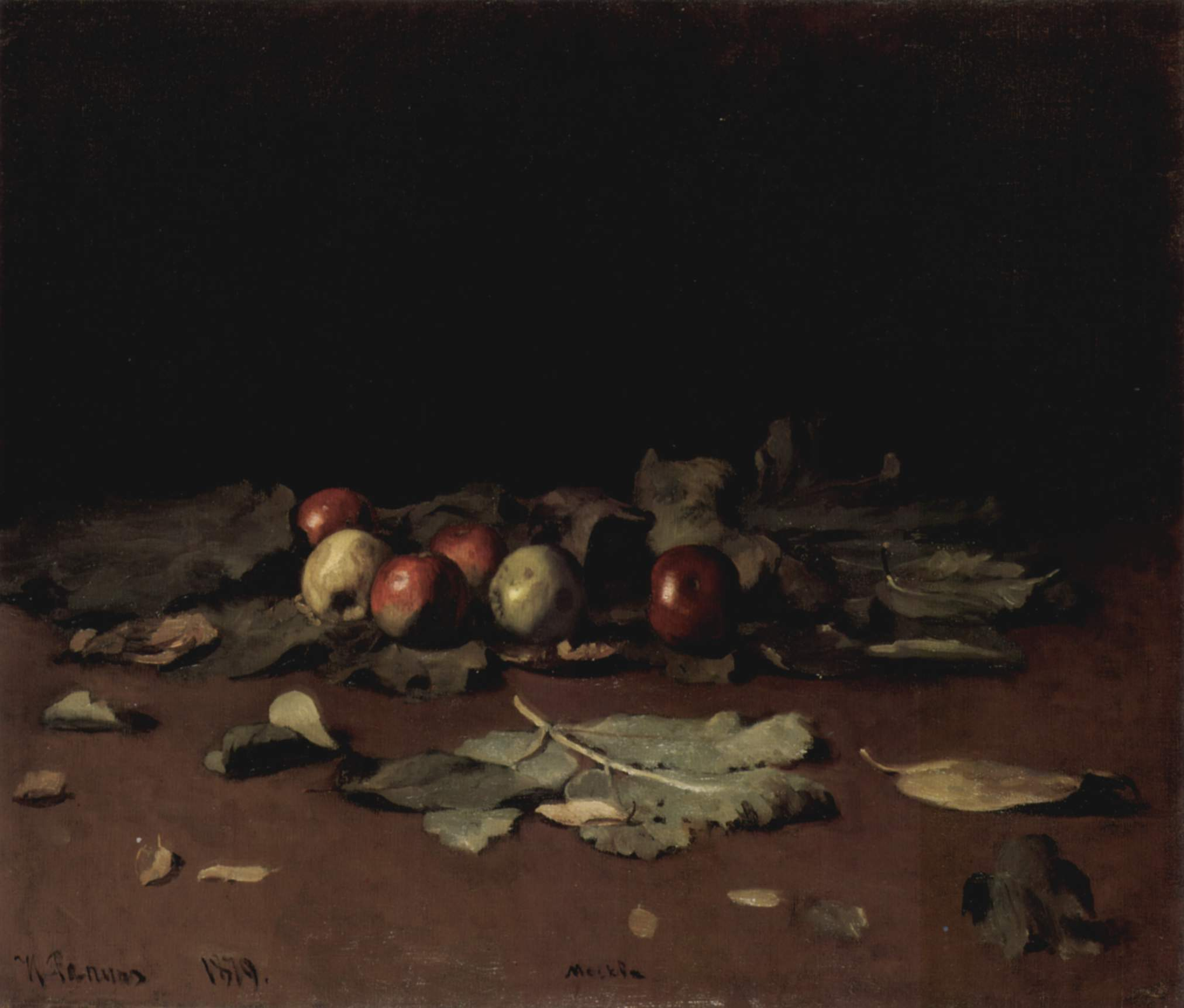 Apples and leaves.